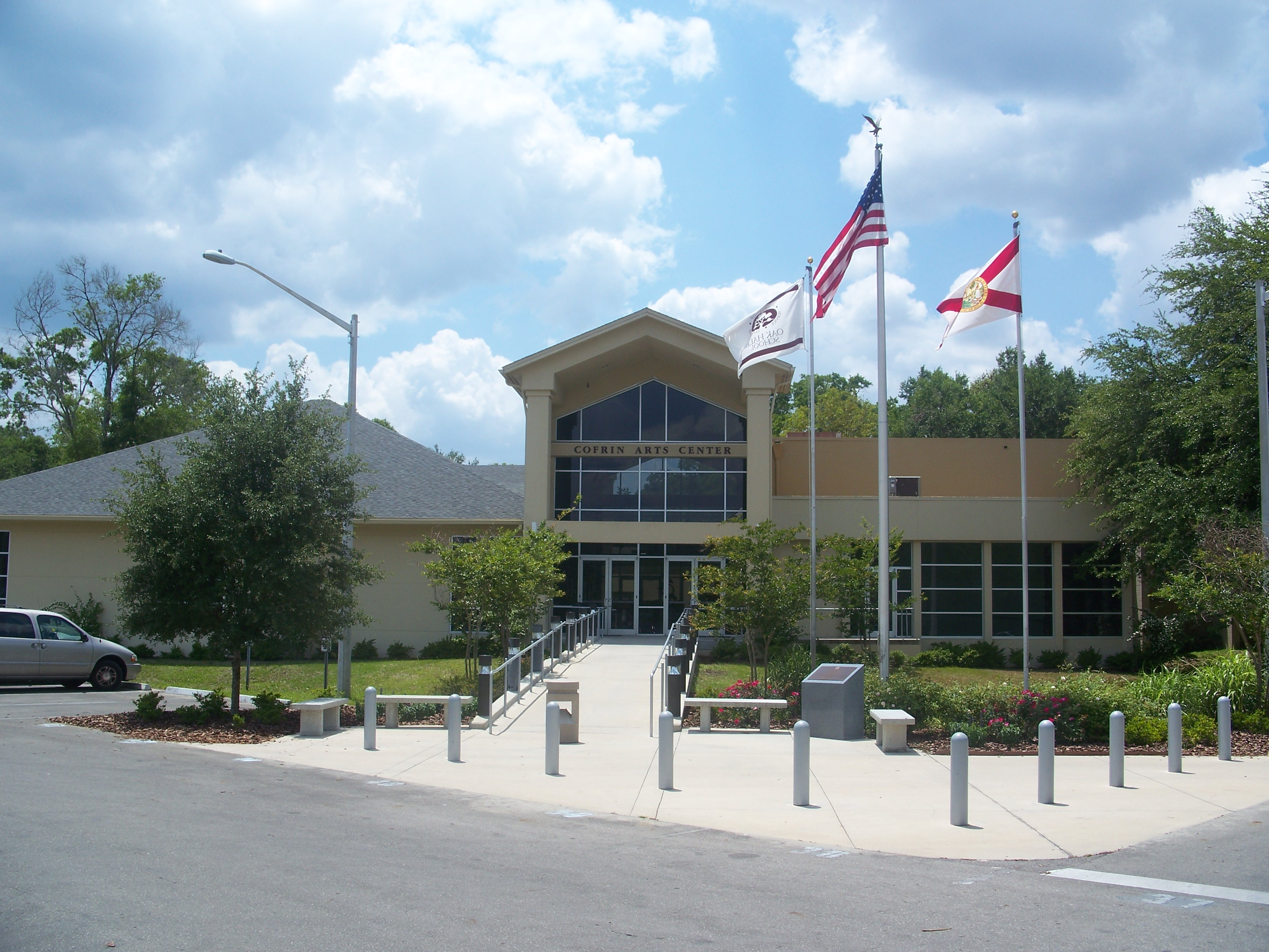 Gainesville, Florida: Oak Hall School: Cofrin Arts Center